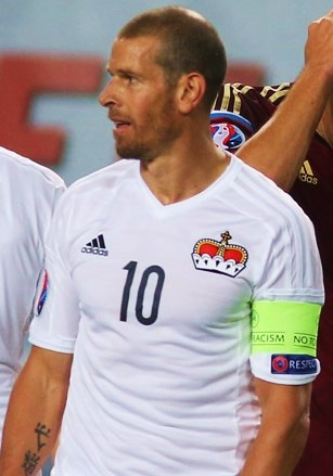 Mario Frick